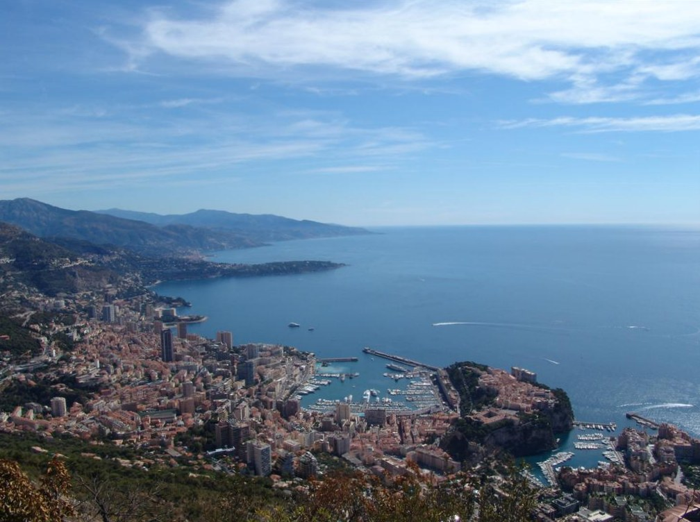 Panorama of Monaco taken from the mountain called 'La Tête de Chien' (the Dog's Head). On the right is Fontvieille, then you can see the Rocker (Rock) on which the palace sits. In the centre is Port Hercule, and in front of it the shopping district called 'La Condamine'. The tallest buildings are all in Monte Carlo and in the distance the view goes as far as Ospedaletti in Italy.